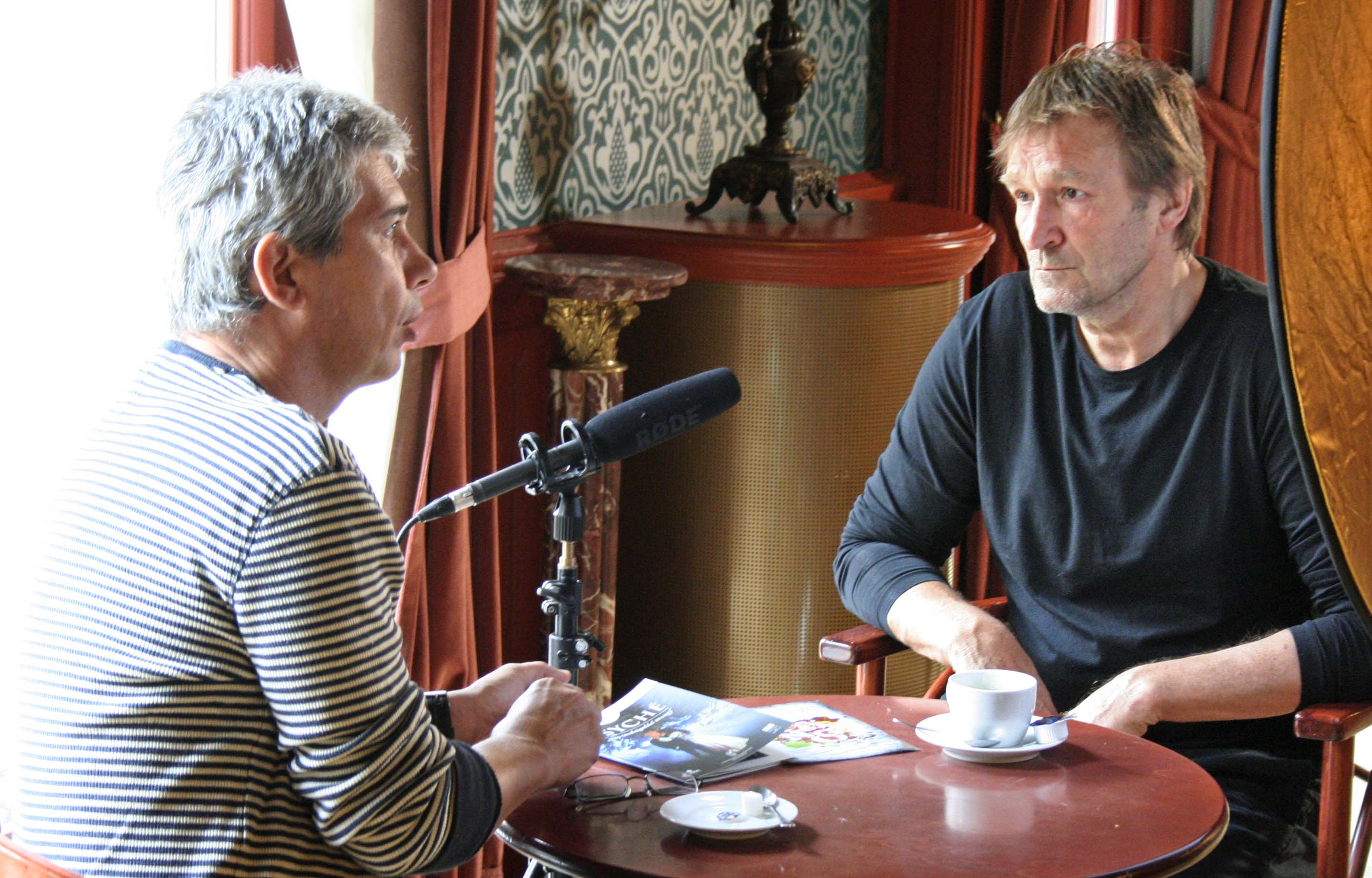 György Cserhalmi Hungarian actor interviewed 2013 - Urania National Film Theatre Budapest